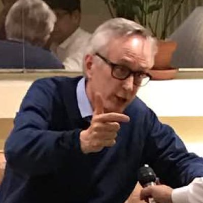 Sir Michael Barber, 2017